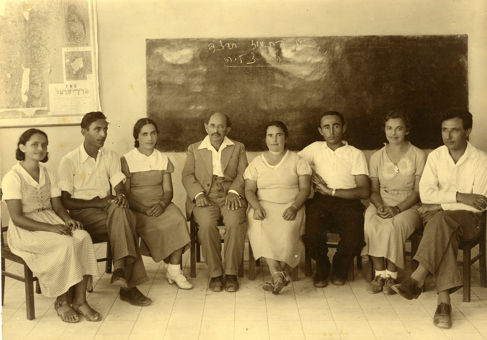 Teachers of the first elementary school in Herzliya as photographed at work in 1934. The inscription on the blackboard reads: 13 Tammuz 5734, Herzliya (i.e. summer of 1934). On the left there is a geographical map with the inscription "Map of Eretz Yisrael".